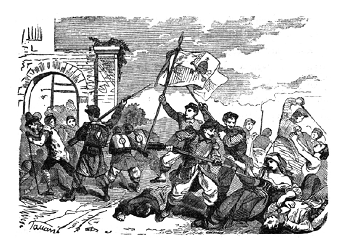 Pictures showing the massacre of Perugia patriots by papaline troops of 20 jume 1859